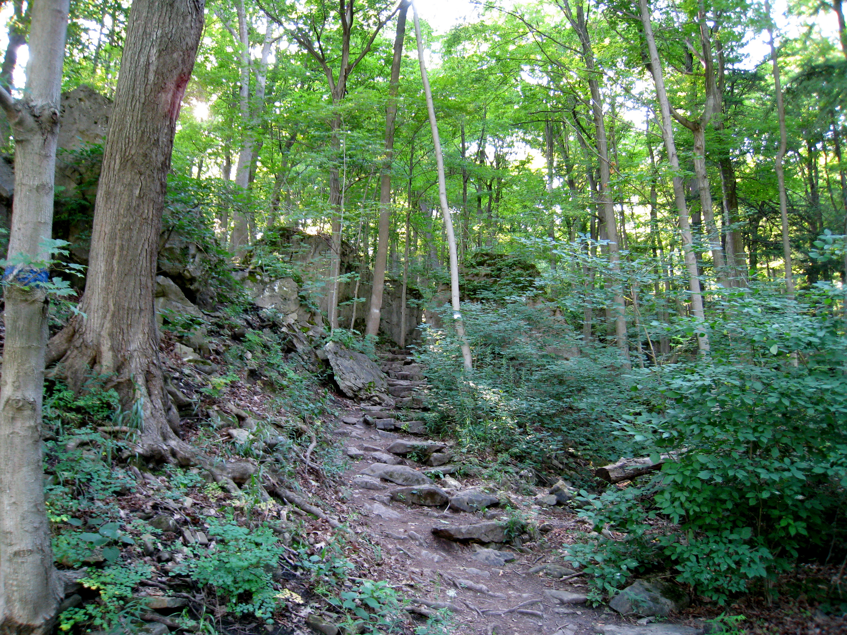 Steps at Niagara Glen Nature Reserve.